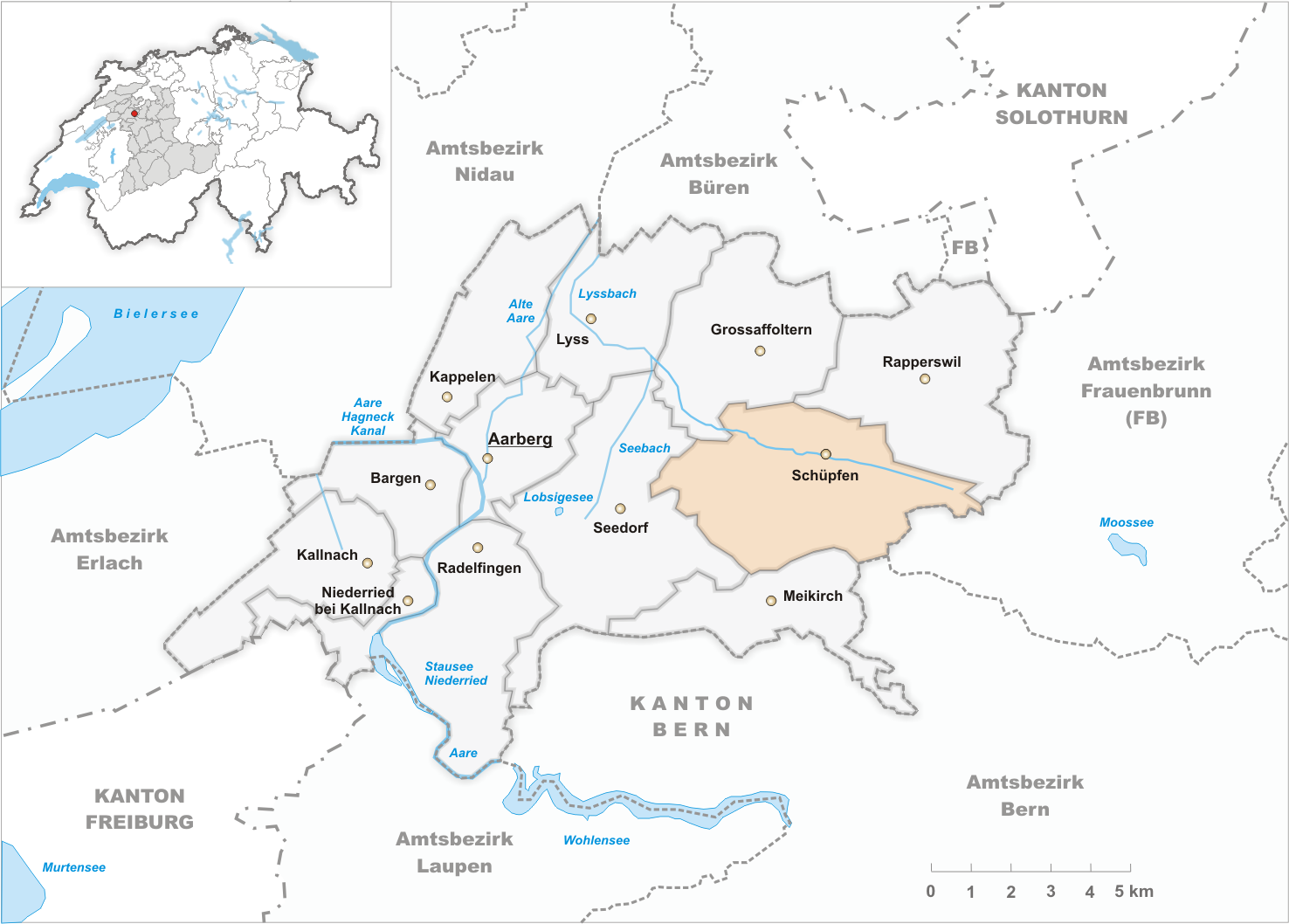 Municipality Schüpfen